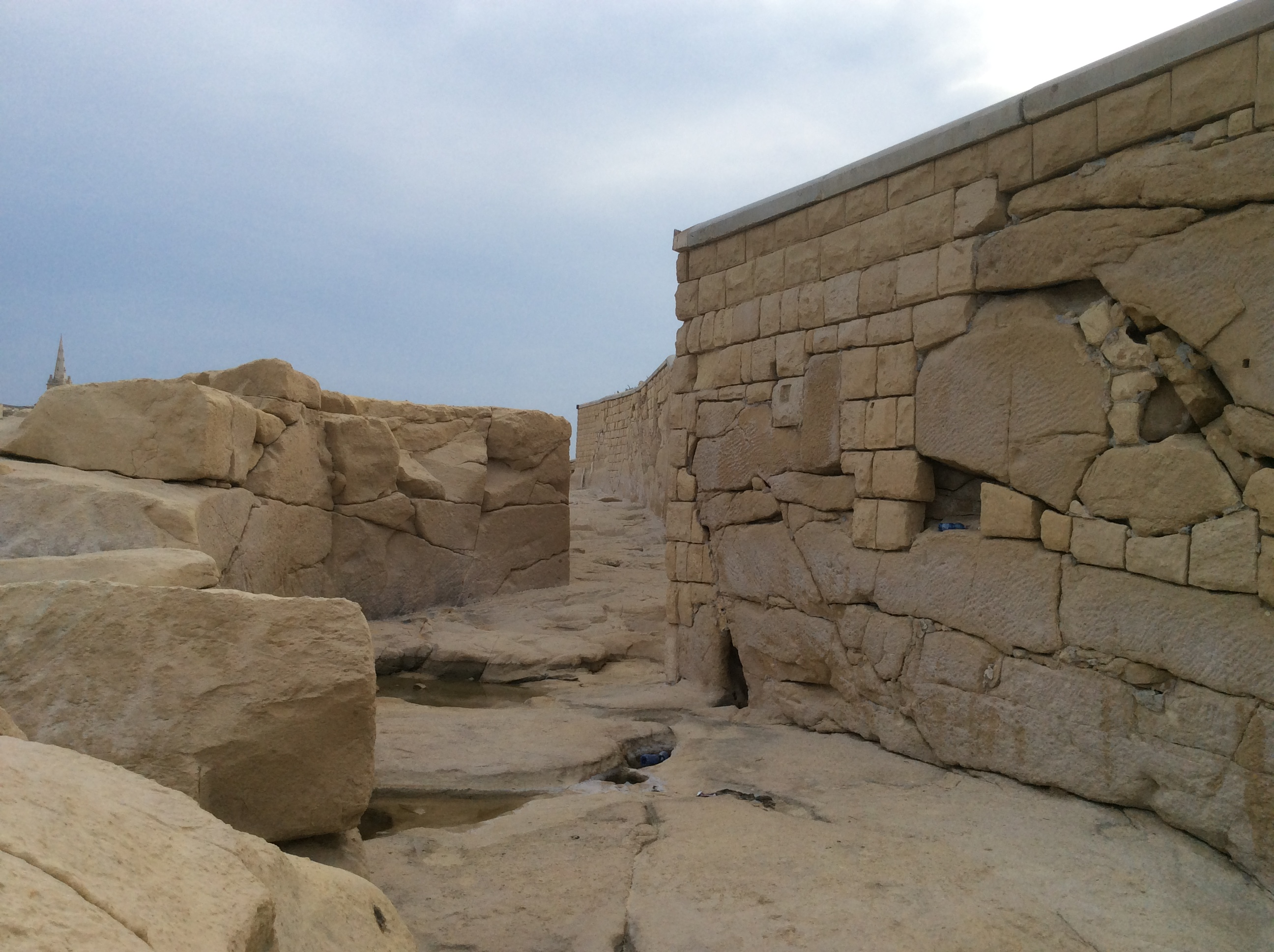 Ditch - Fort Tigné This media is about Maltese cultural property with inventory number 01354.